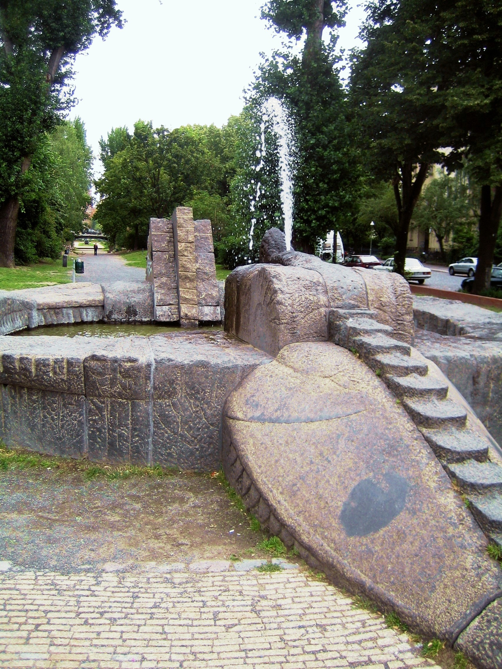 The "Drachenbrunnen" (dragon-fountain) at Oranienplatz in Berlin-Kreuzberg (Germany). Built up in 1986. Design: Wigand Wittig.